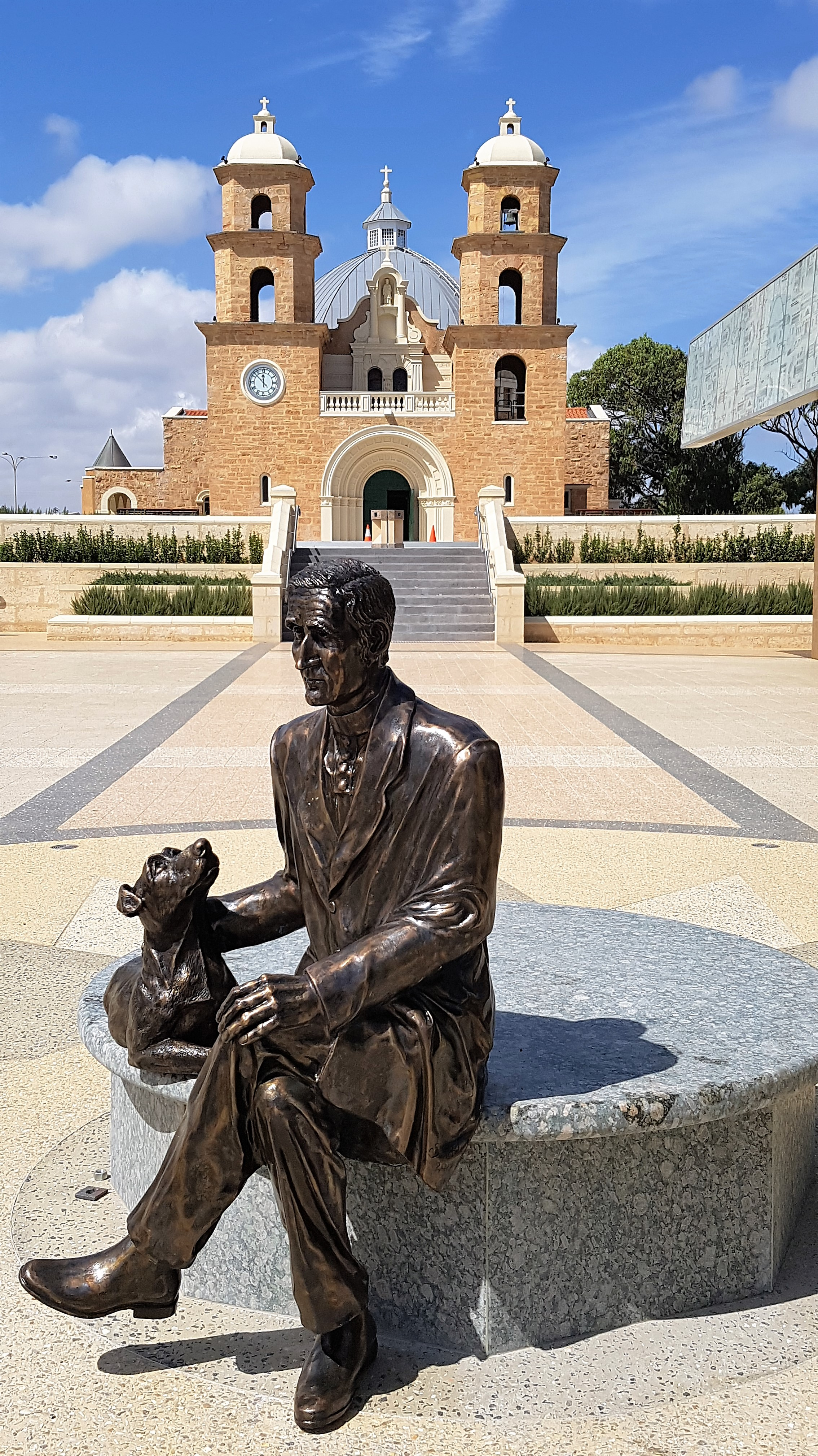 View of the Cathedral with Sculpture of Hawes and Dominie in foreground